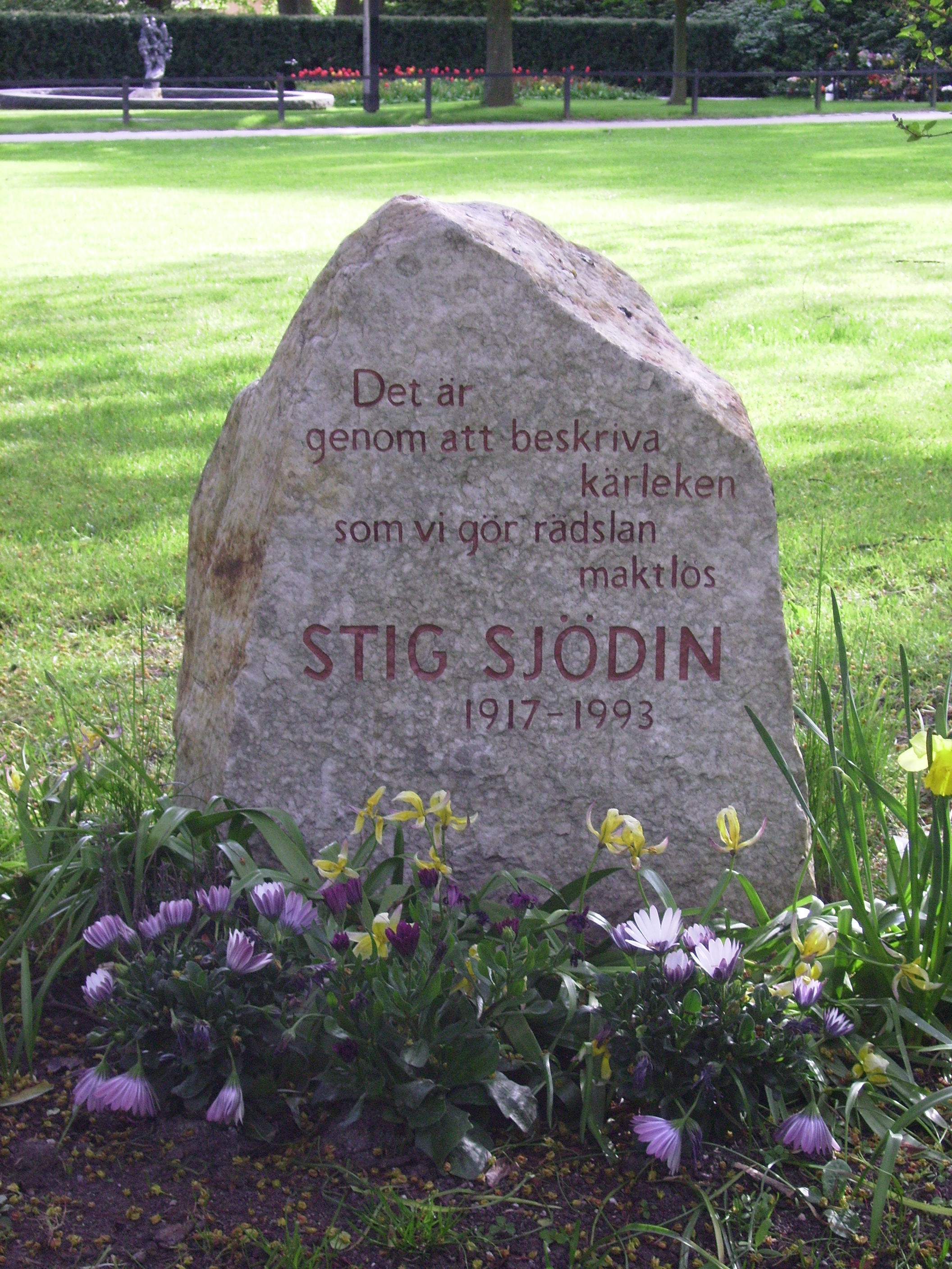 Picture of Stig Sjödins grave in Katarina churchyard